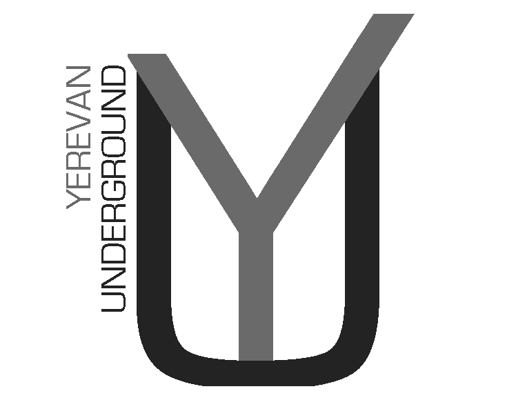 Unofficial Yerevan Underground Emblem